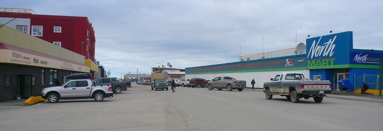 Inuvik, city center